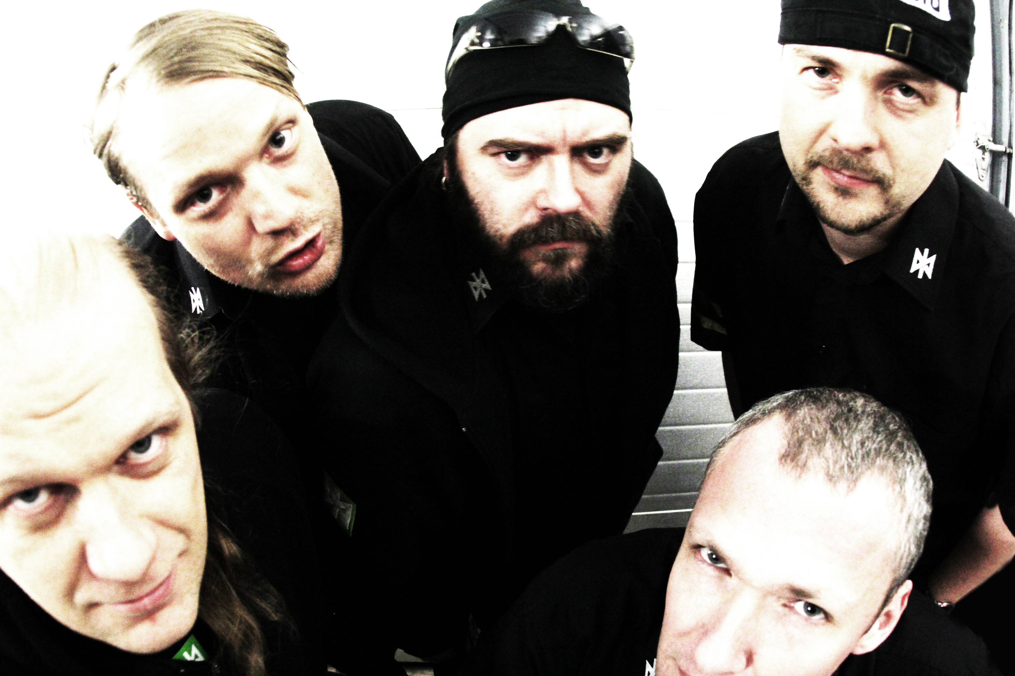 ZORG band picture